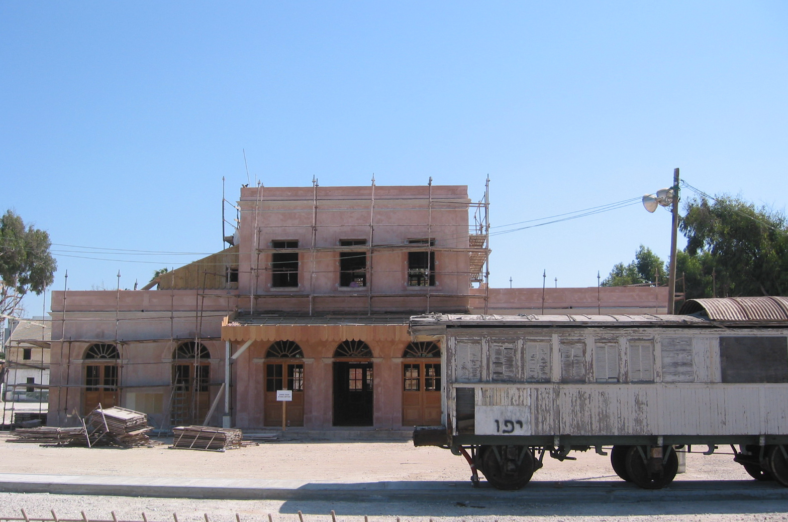 Jaffa old train station